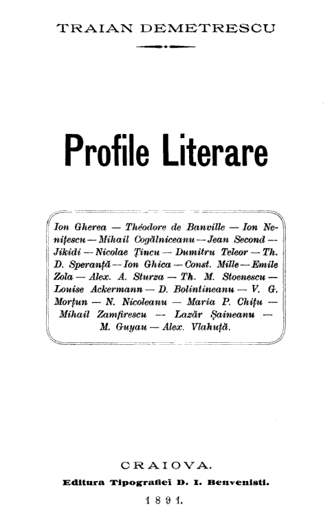 Traian Demetrescu - First page of Profile literare, published by Editura Tipografiei D. I. Benvenisti, Craiova in 1891.